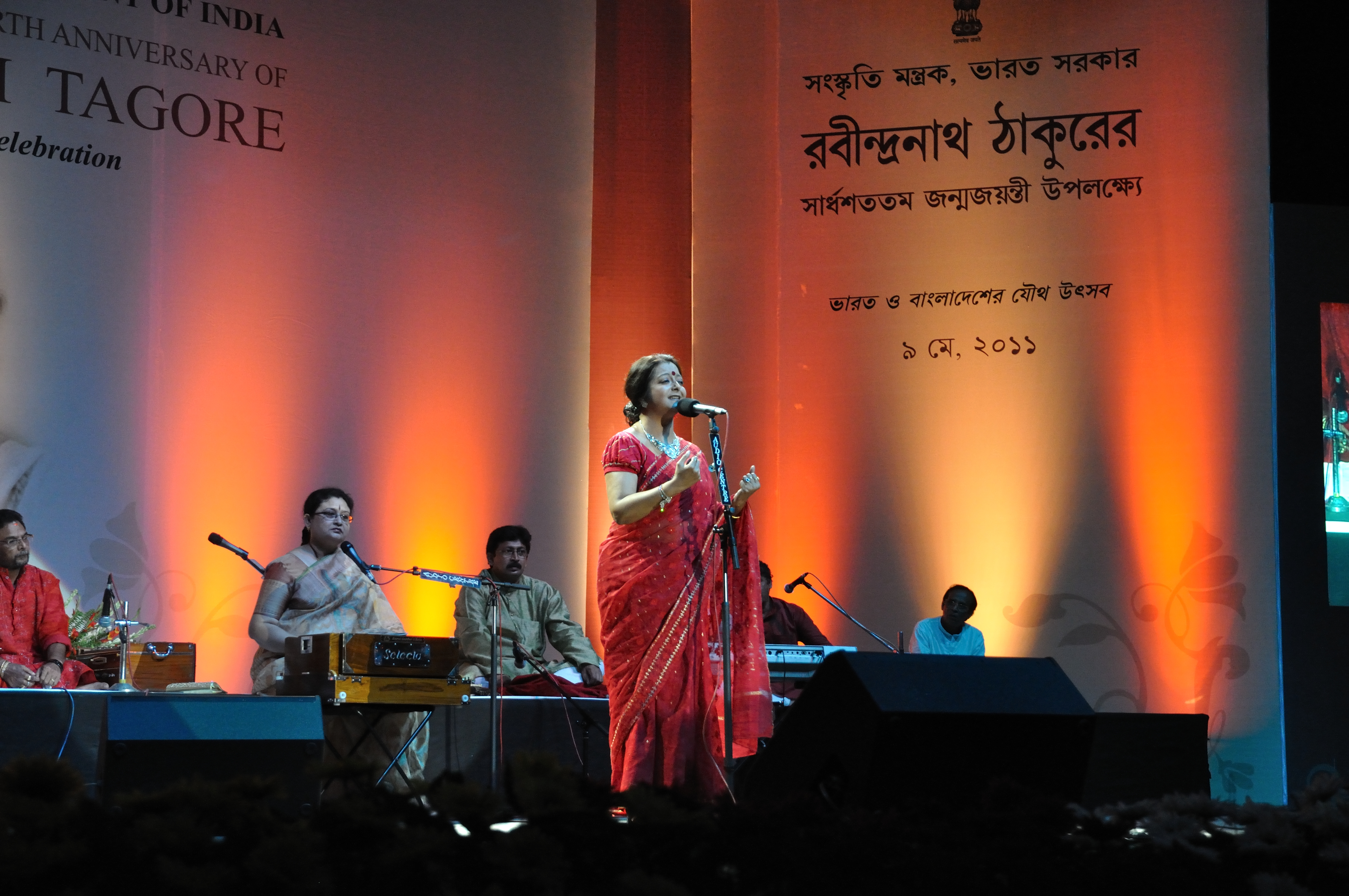 Commemoration of 150th birth anniversary of Rabindranath Tagore, organized by the Ministry of Culture, Government of India. It was an Indo-Bangladesh joint celebration, held at the Science City, Kolkata on 9 may, 2011.